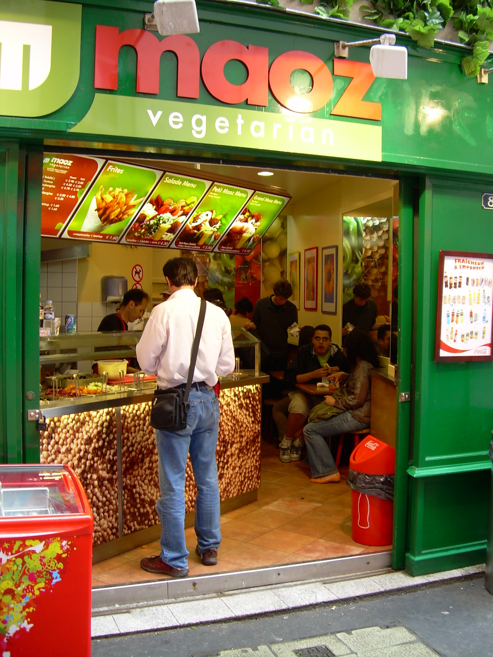 Maoz makes the greatest falafels in Paris. Or at least from the ones I've tasted.